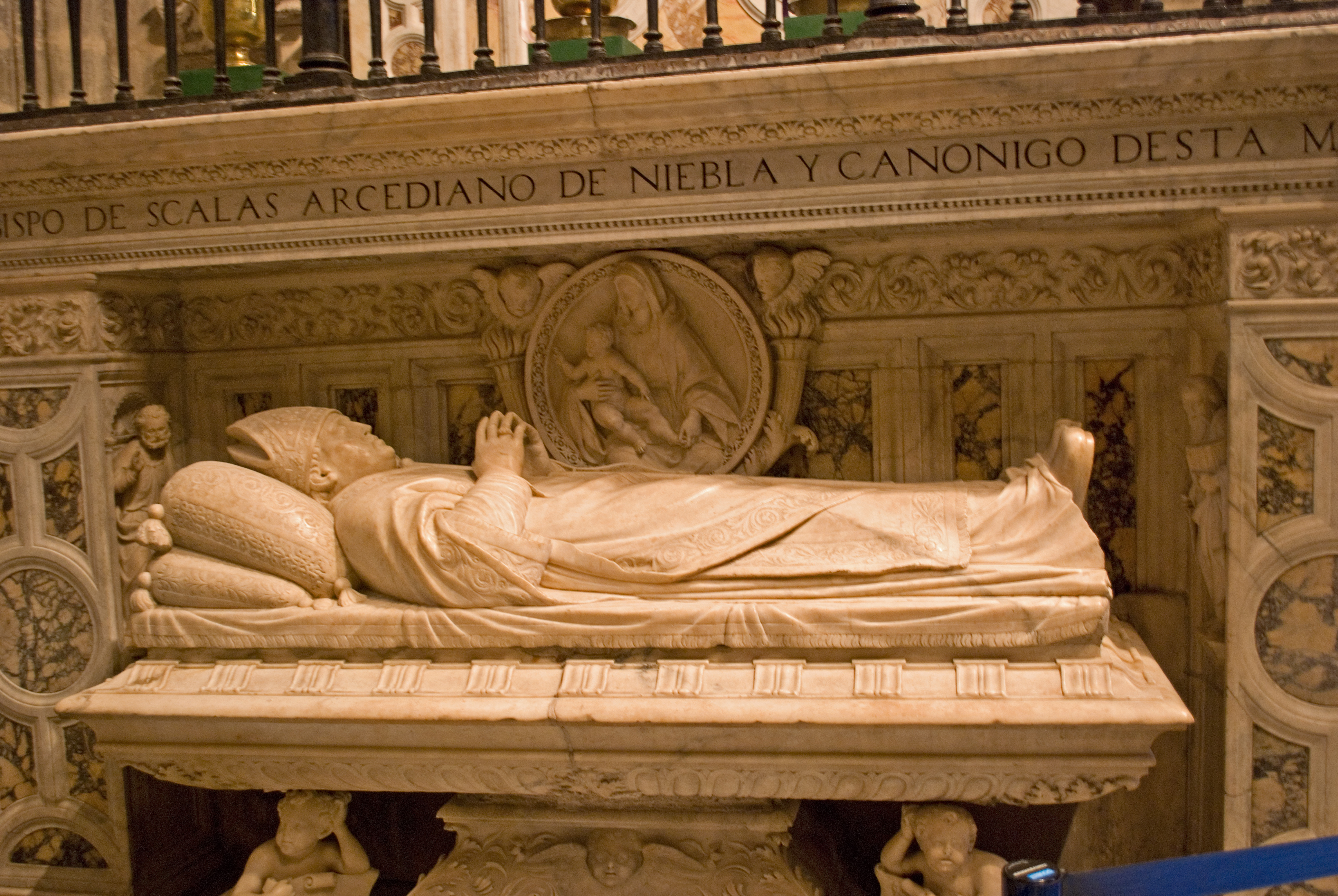 Cathedral of Seville